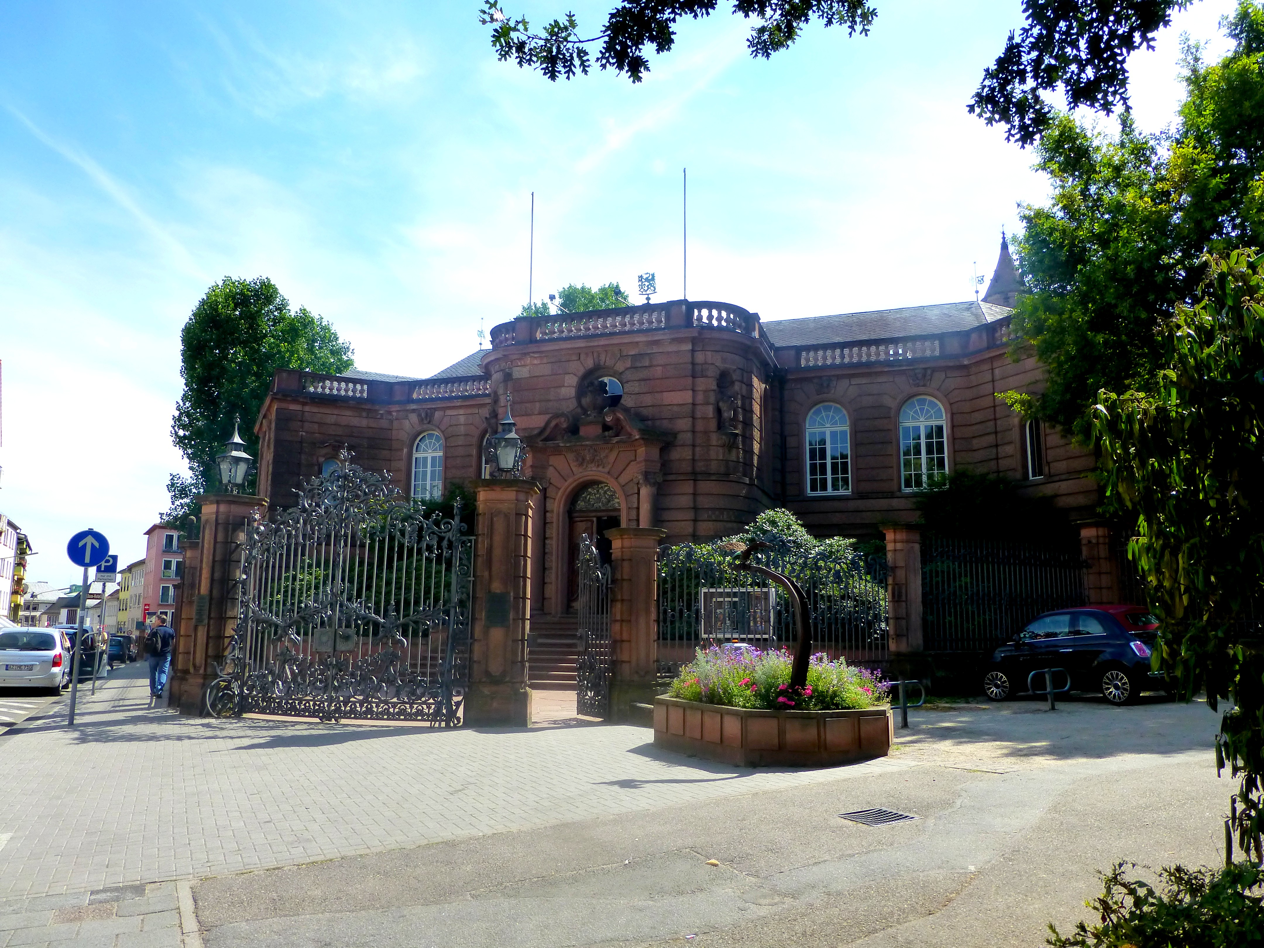 Worms - Museum Heylshof